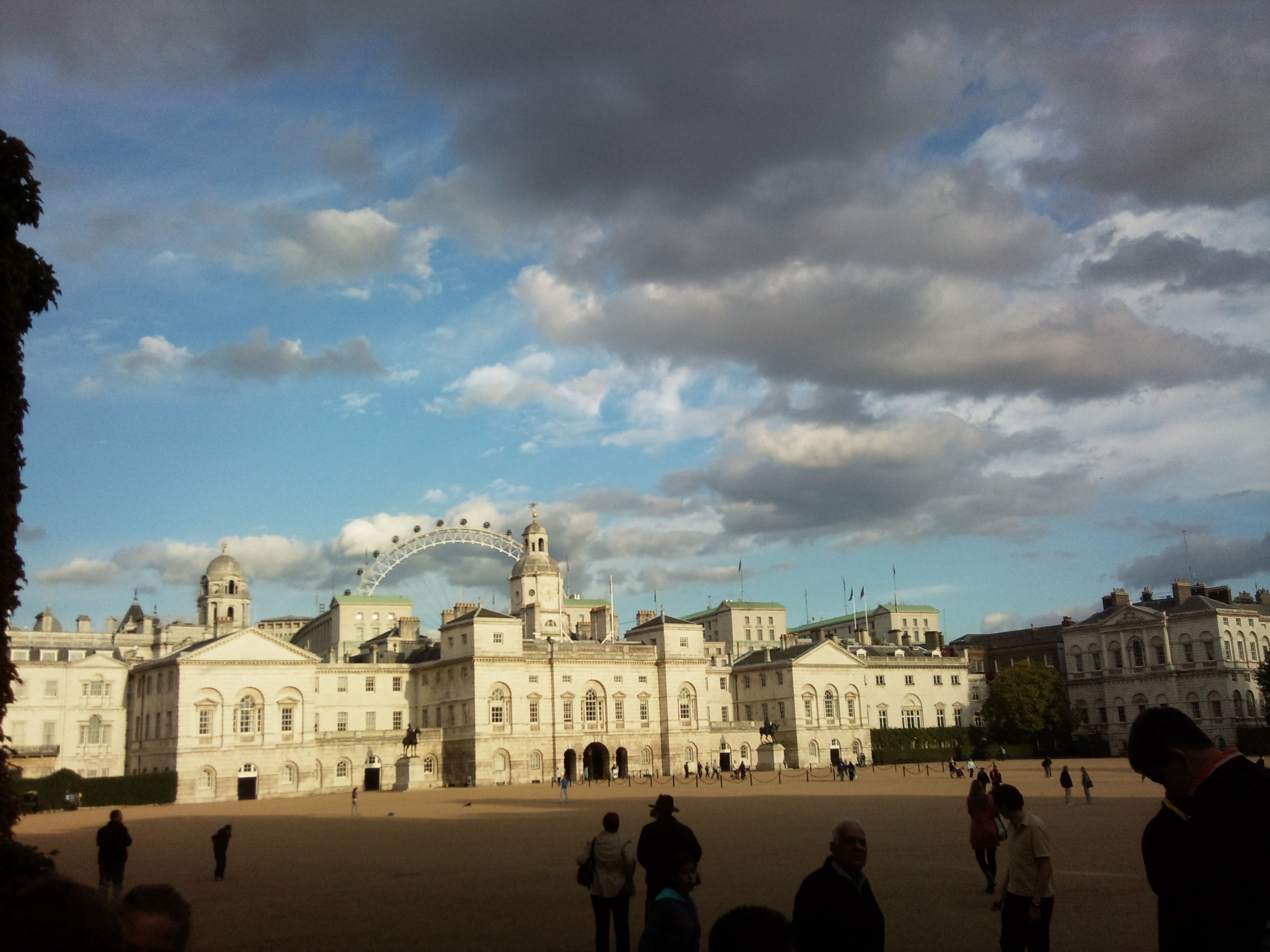 Horse Guards building in London